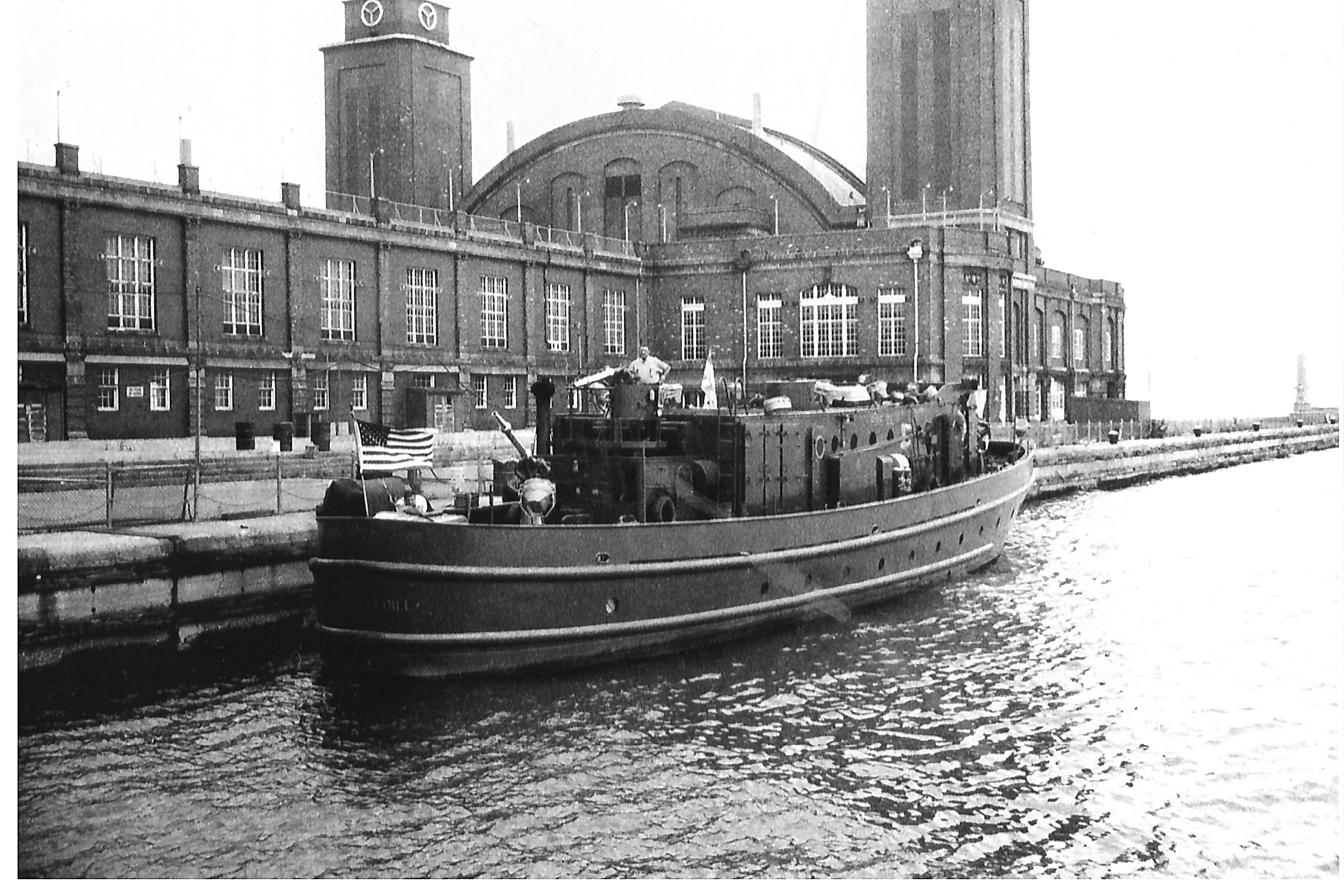 Harold Ross is standing on top, tower could raise 30 feet in air.